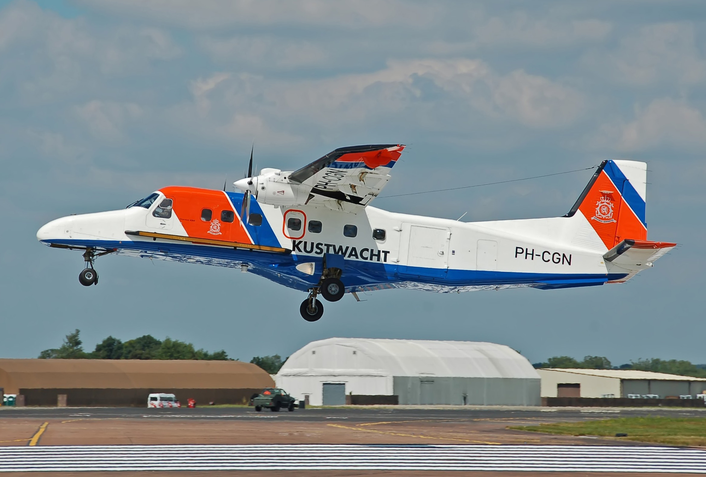 Netherlands Coastguard Dornier Do 228 (registration PH-CGN) arrives RAF Fairford, Gloucestershire, England, on 10th July 2014, for the Royal International Air Tattoo.